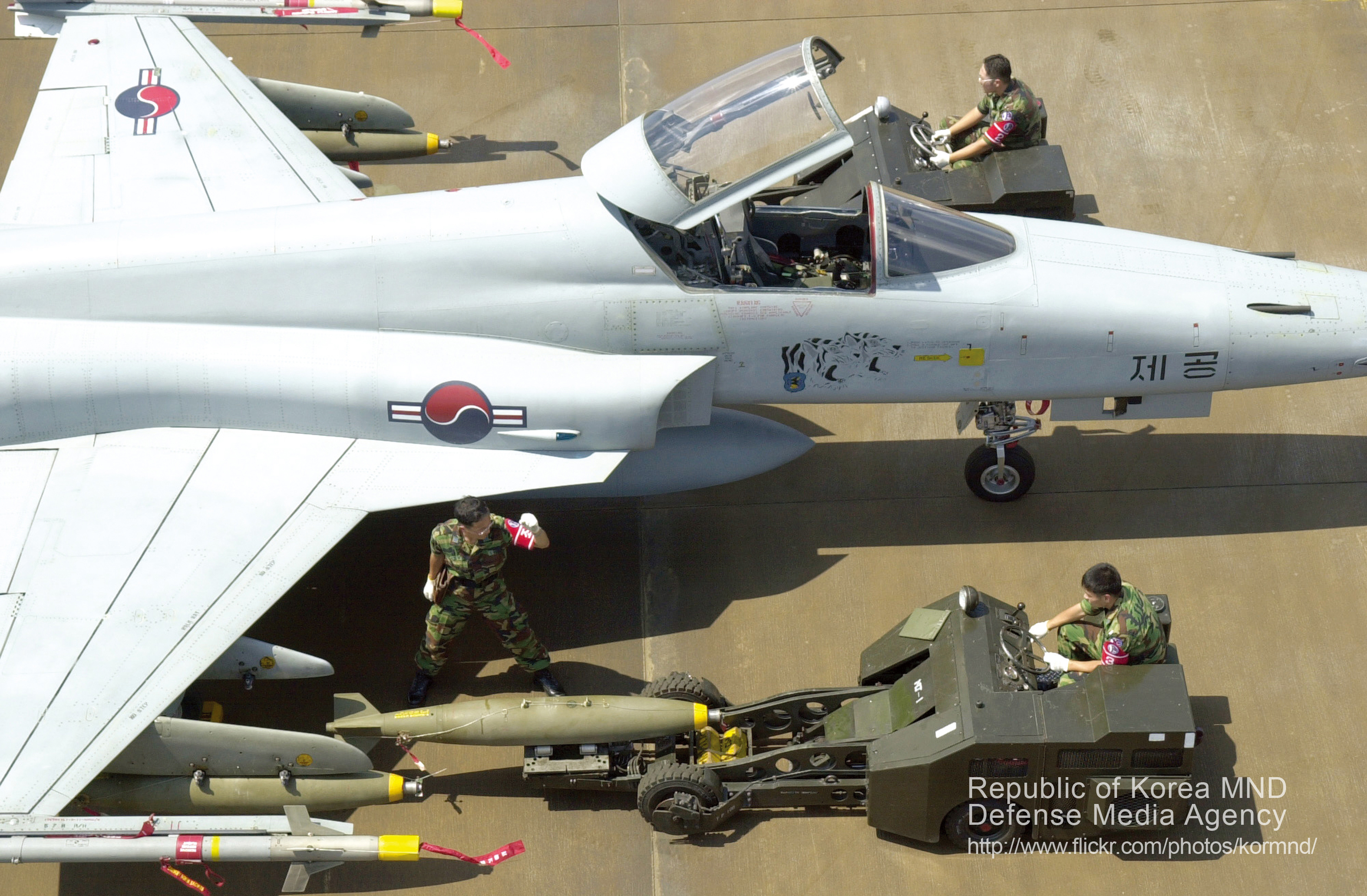 F-5 전투기에 장착되는 무장전시 Arming the F-5 fighter. 2008 국방화보 Rep. of Korea, Defense Photo Magazine